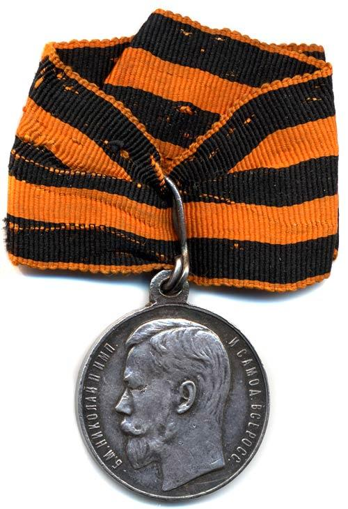 Medal of St. George